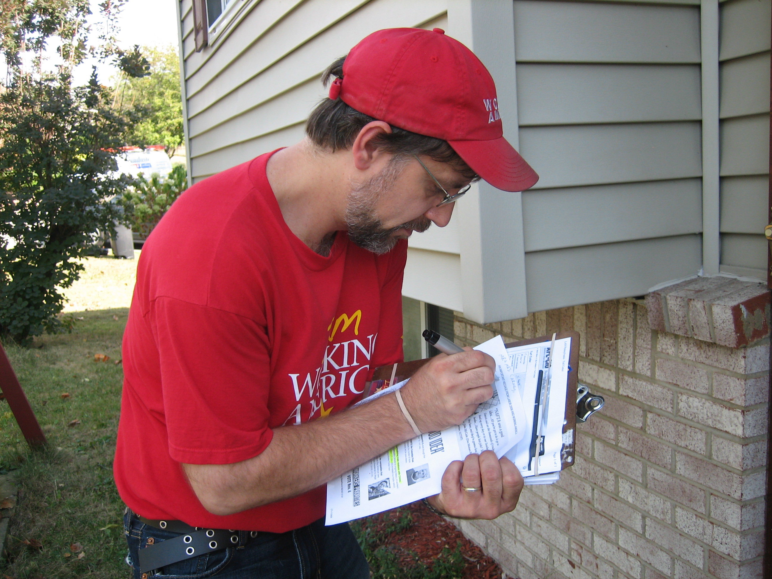 Working America Field Manager Dave Ninehouser at a Working America member's door